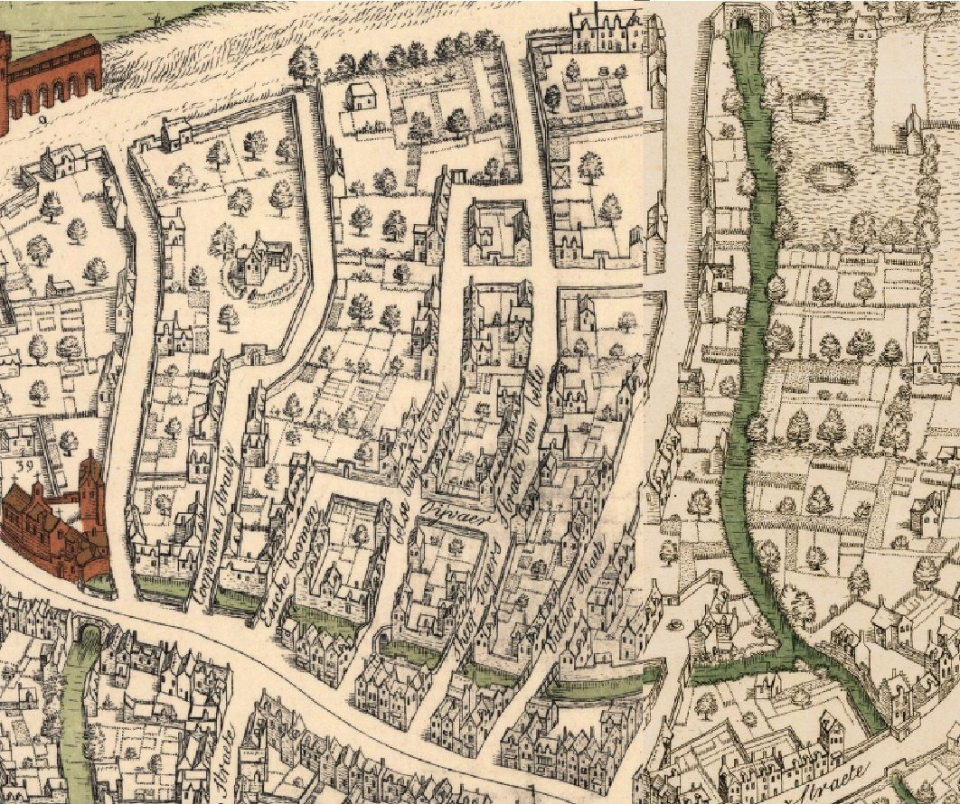 Vuldersreitje Brugge op kaart Marcus Gerardus